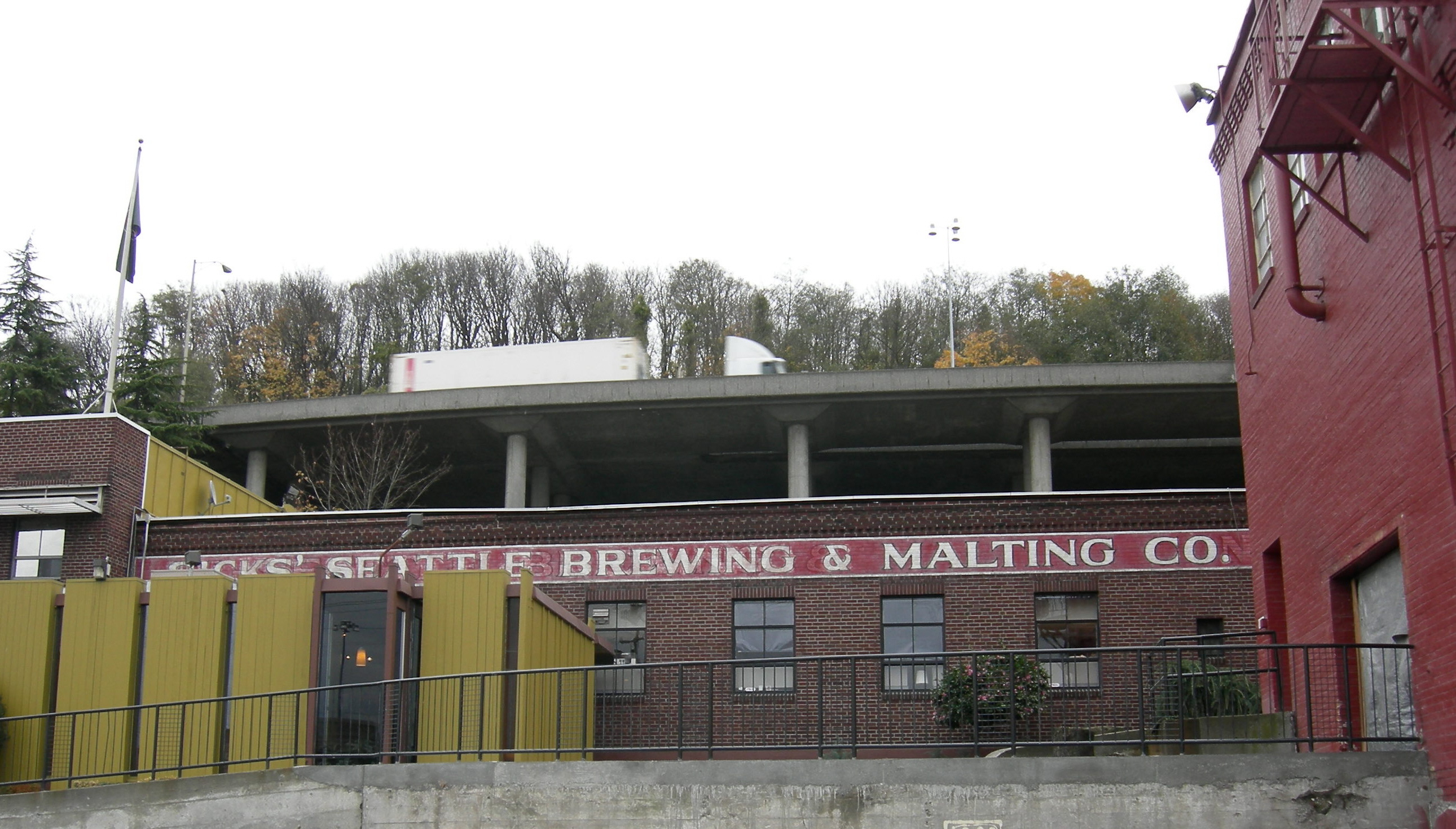 Rainier Brewery (now the headquarters of Tully's Coffee), Seattle, Washington, USA. Sign (slightly obscured) says "Sick's Seattle Brewing and Malting Co." In the background is Interstate 5.